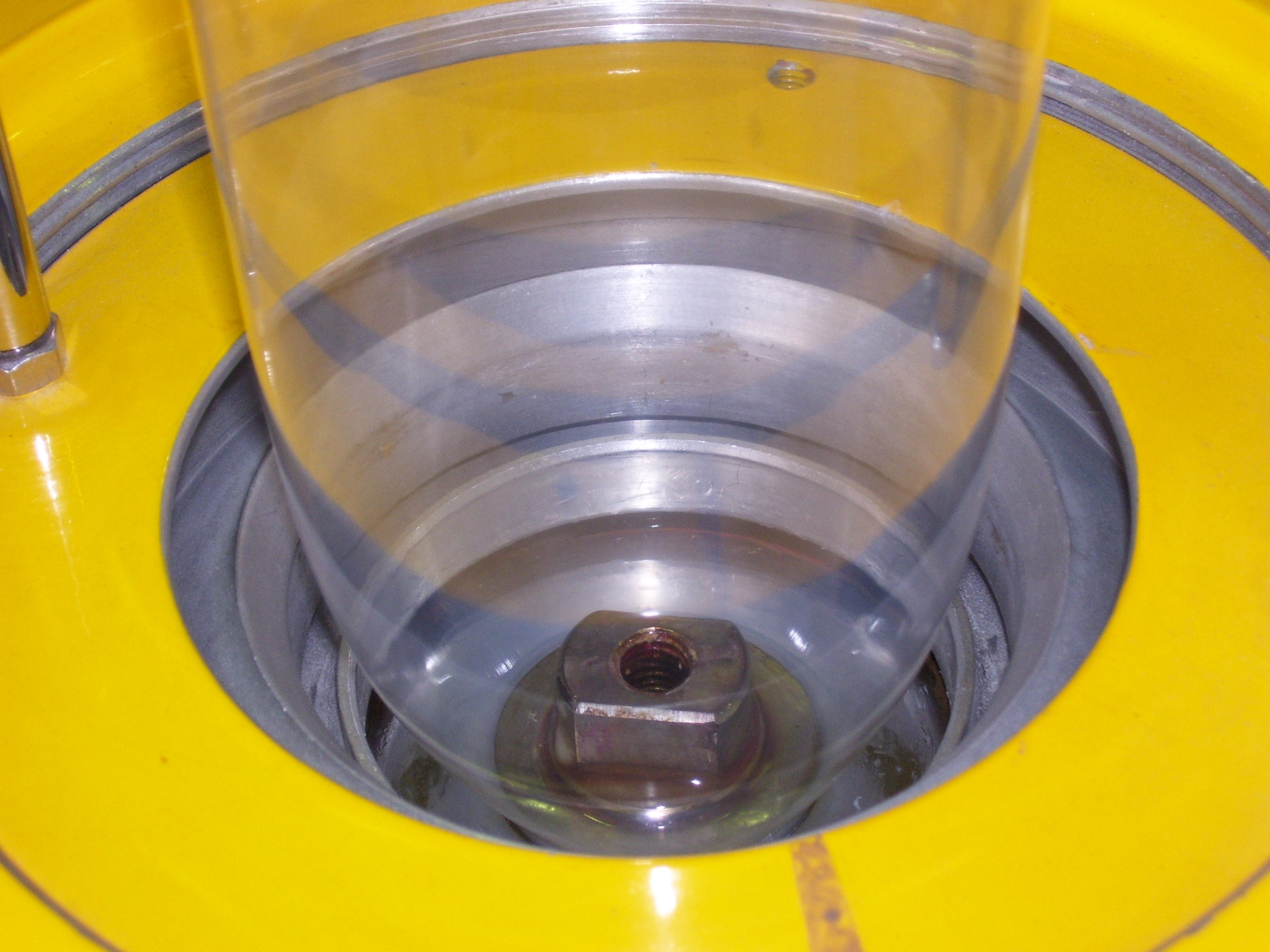 Blow_film_PLA-Blend_Bio-Flex